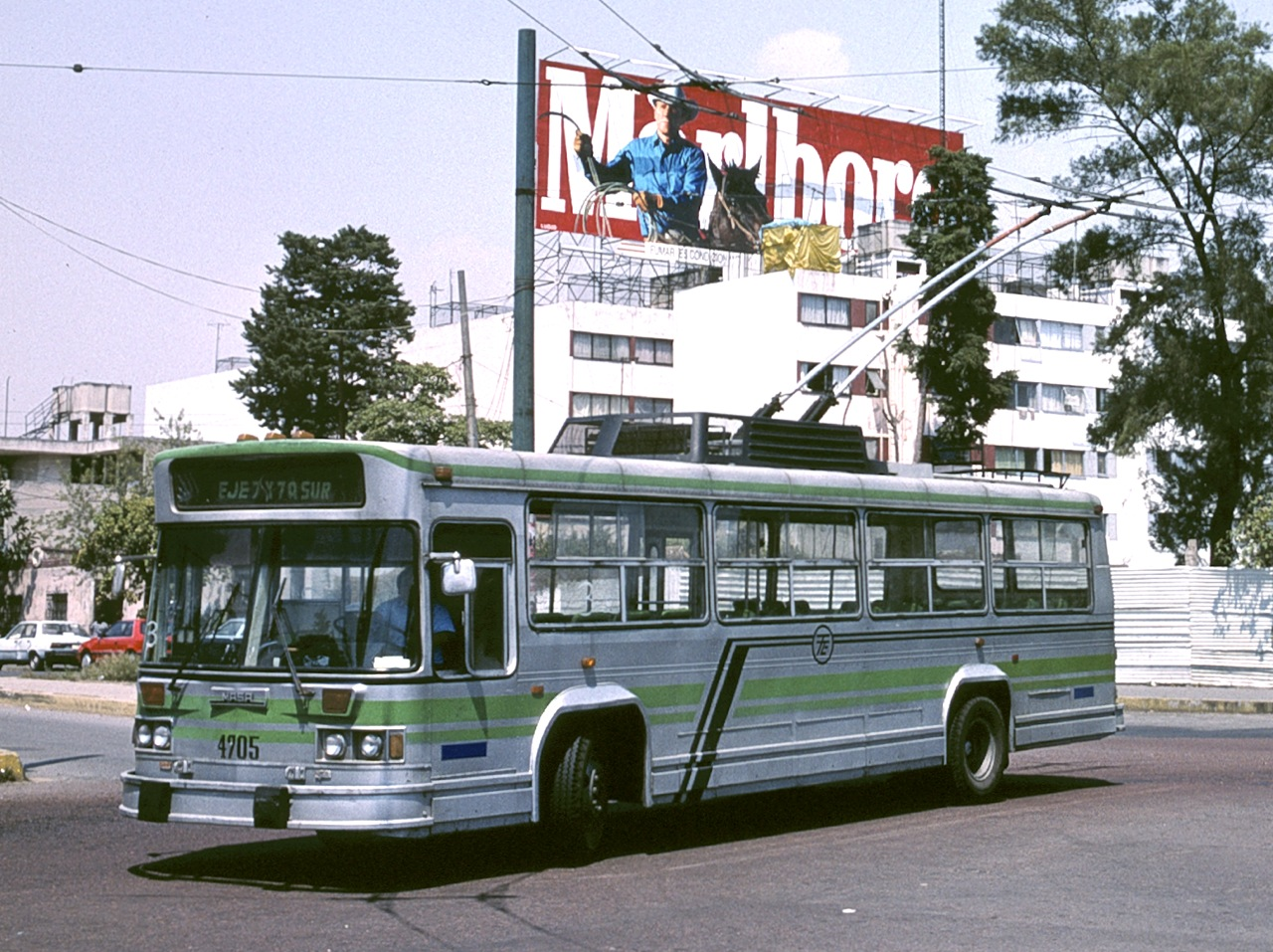 Trolleybus 4705 of Servicio de Transportes Eléctricos turning at the Mixcoac terminus, the west end of route D (Eje 7/7A Sur), in Mexico City. No. 4705 was built in 1988 by MASA, and it is wearing the paint scheme STE adopted in 1990.